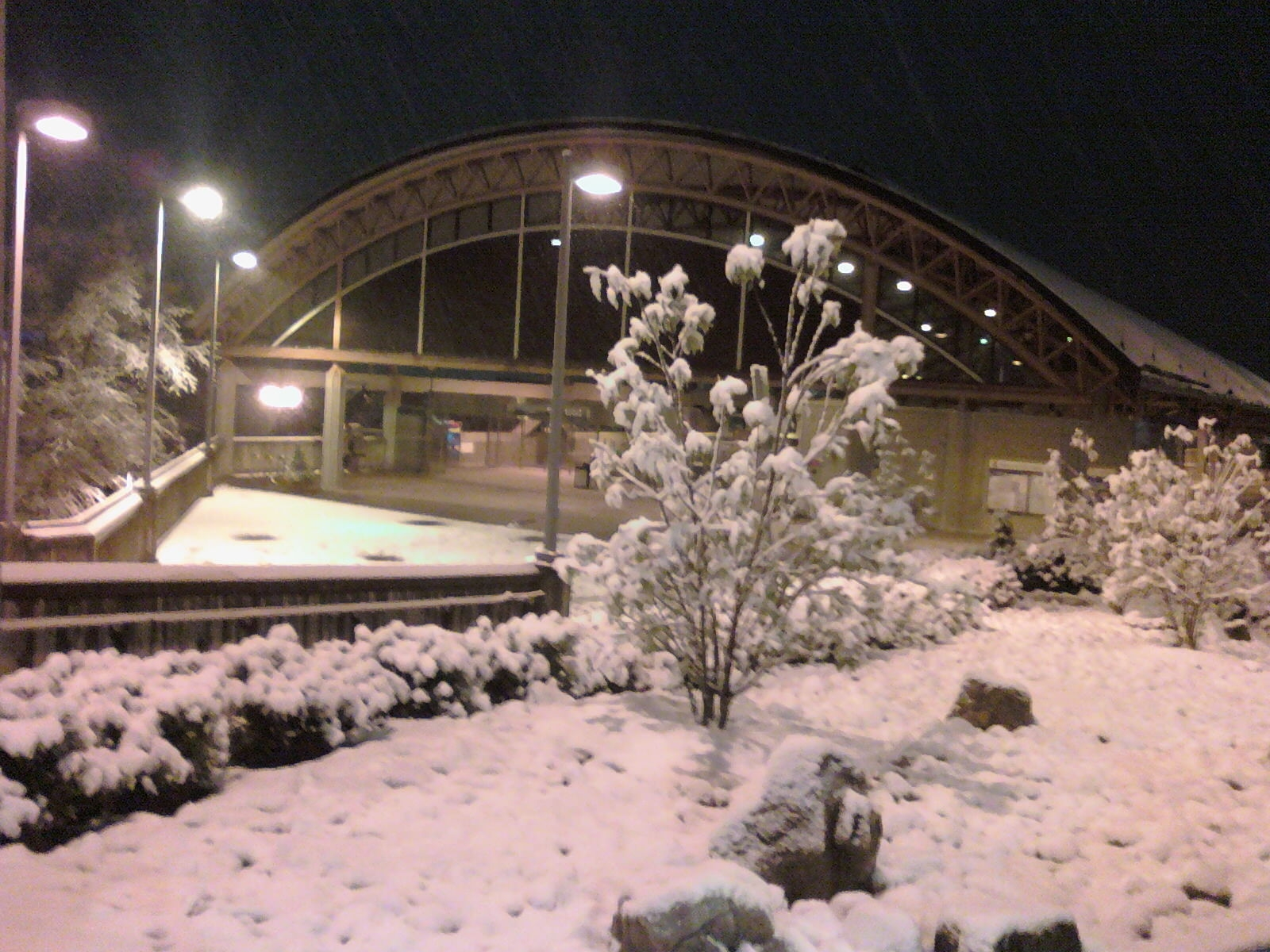 MARTA Medical Center Rail Station in the snow 2010 on Peachtree Dunwoody Road at the DeKalb/Fulton Border just inside 285. Atlanta taken with my camera phone.